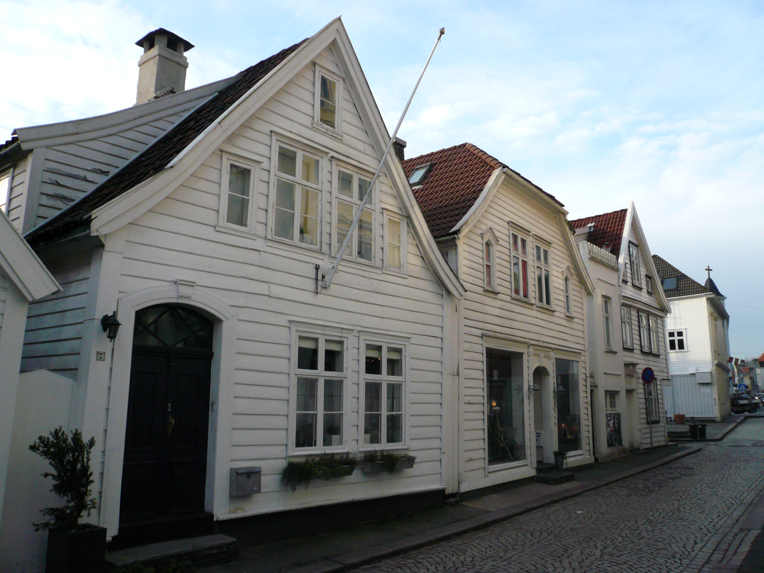 Lille Øvregaten, Bergen, Norway